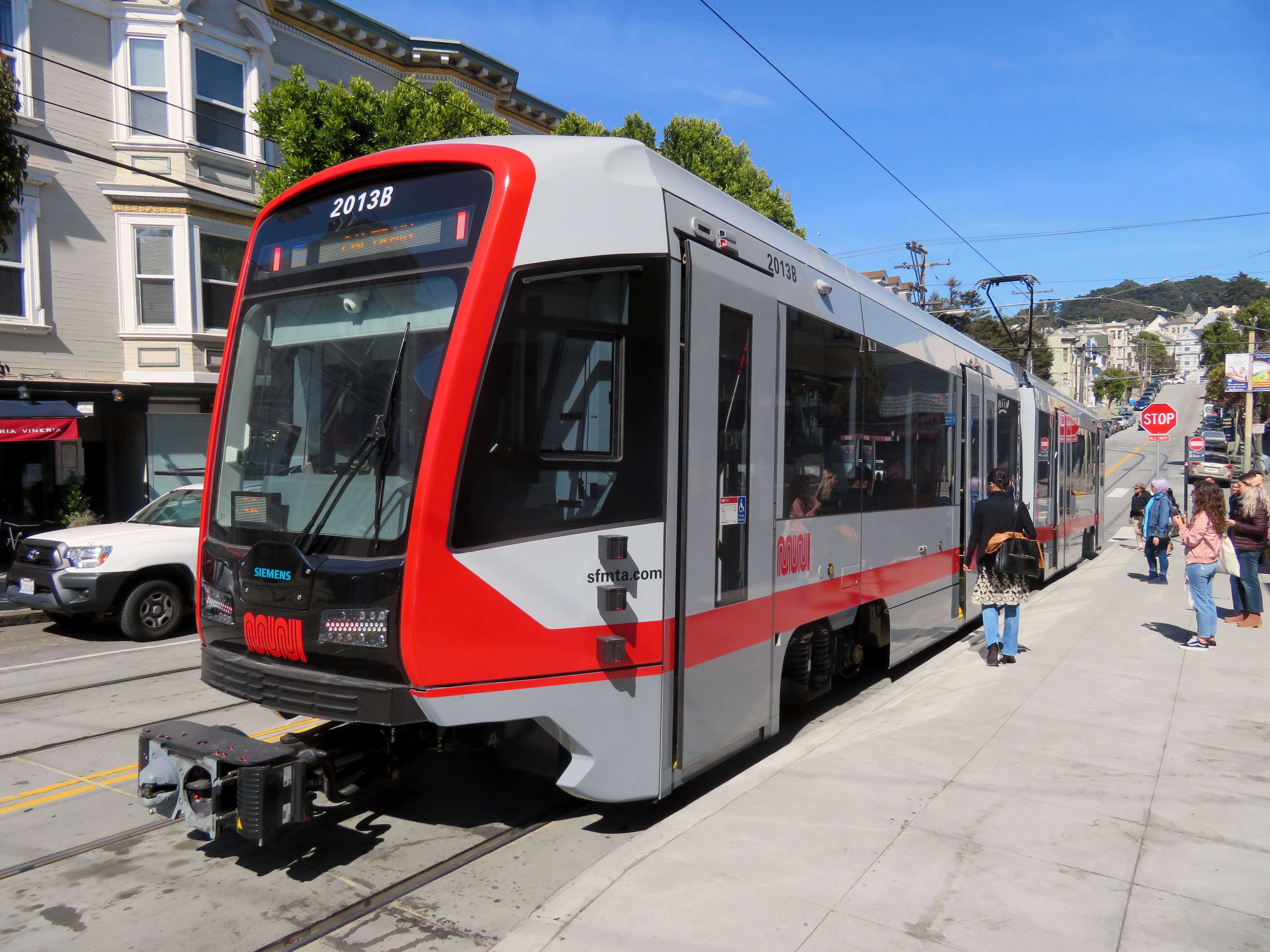 LRV4 #2013 at Carl and Cole station in April 2018